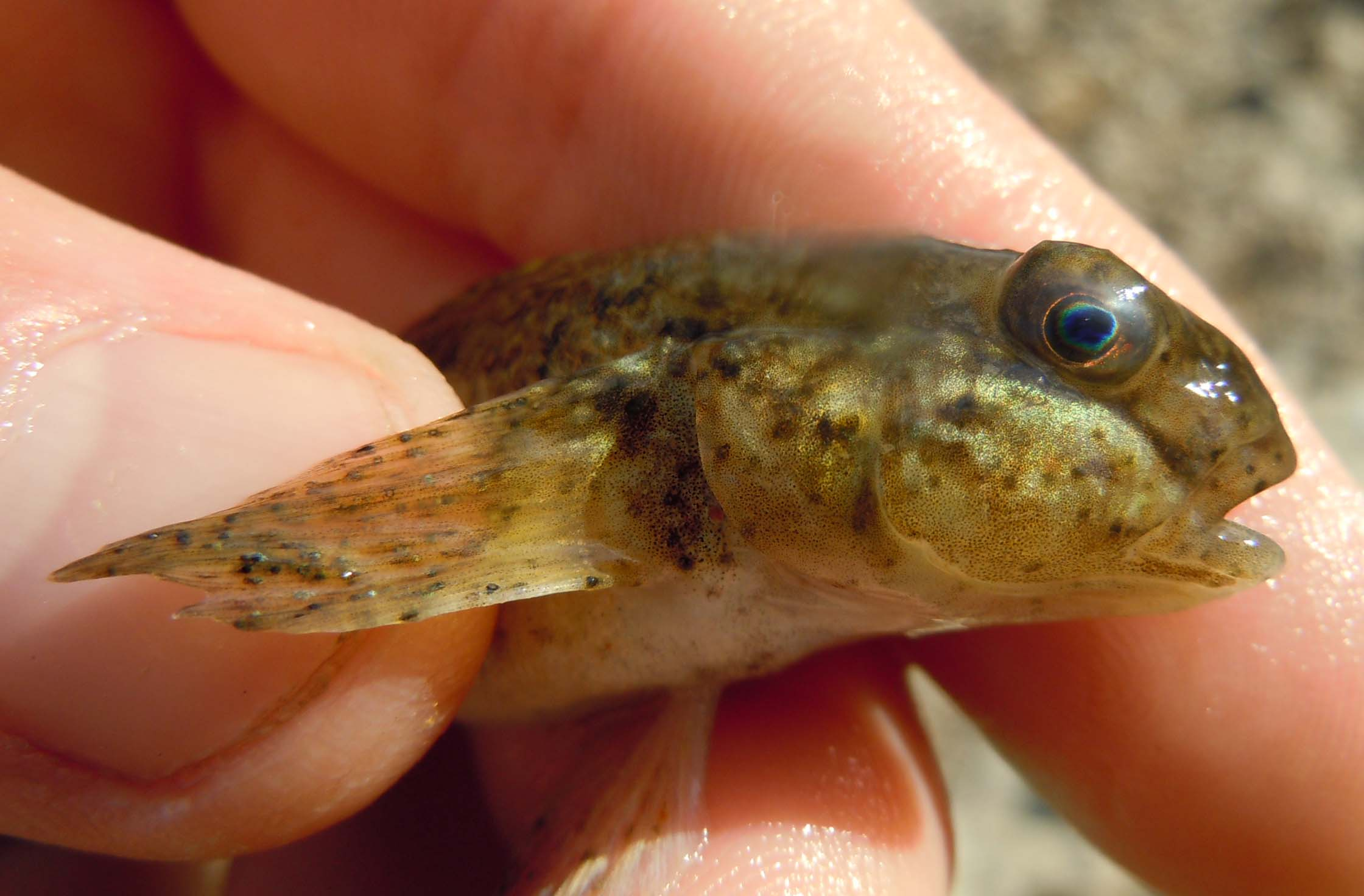 The round goby (Neogobius_melanostomus) from the Tylihul Estuary (Black Sea, Ukraine) infected with Cryptocotyle spp.